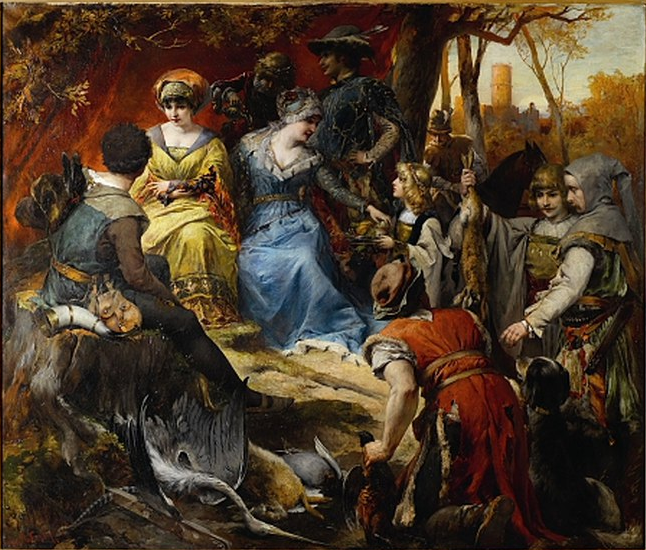 Alexander (Sandor) von Wagner, After the Hunt ( Mathias Corvinus ), oil on canvas, 119 x 139 cm